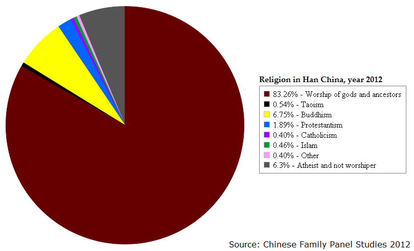 Demographics of religion in Han China according to the CFPS survey conducted in 2012, published in March 2014. The survey has involved households in 25 Han Chinese provinces, representing 95% of the total population of China, excluding the autonomous regions of Hong Kong and Macau, Tibet, Inner Mongolia, Xinjiang, Qinghai, Ningxia and Hainan. Only a small percentage of people has identified as "Taoist", because the name "Taoist" in China traditionally refers just to the priests of Taoism, and not to the believers, who fall within the large majority of "non religious" or participants to traditional folk religions (worship of gods and ancestors).